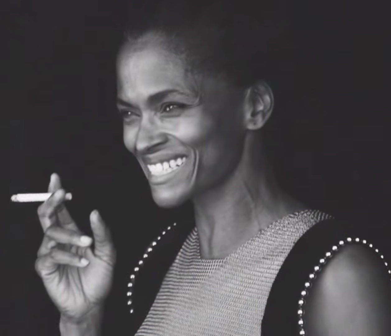 Black and white still of American fashion model Karen Alexander smoking a cigarette between photo shoots with Peter Lindbergh.